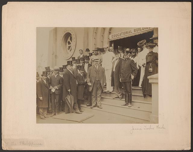 William Howard Taft, Governor-General of the Philippines, at the Louisiana Purchase Exposition, Saint Louis, MO, 1904, photographed by America's earliest female press photographer, Jessie Tarbox Beals